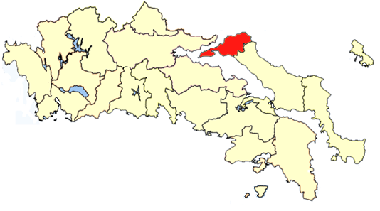 istiaia province